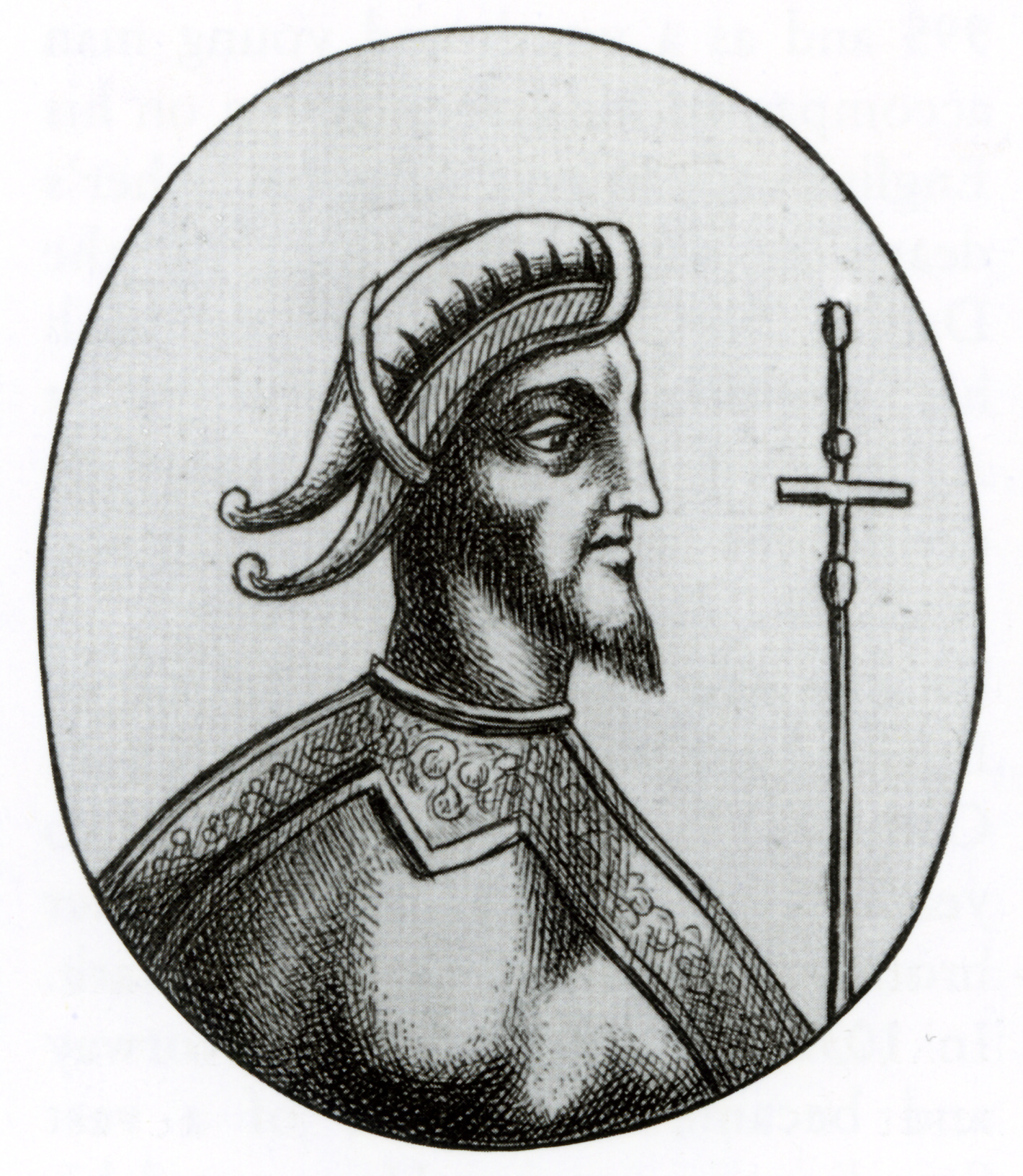 This image is a JPEG version of the original PNG image at File: Sweyn drawing.png. Generally, this JPEG version should be used when displaying the file from Commons, in order to reduce the file size of thumbnail images. However, any edits to the image should be based on the original PNG version in order to prevent generation loss, and both versions should be updated. Do not make edits based on this version. See here for more information. Sweyn Forkbeard, c.970-1014, etching by unknown engraver, image taken from a coin. 15 x 8.5cm (6 x 3 3/8"). National Portrait Gallery (RN49478). National Portrait Gallery, London: Unknown NPG number While Commons policy accepts the use of this media, one or more third parties have made copyright claims against Wikimedia Commons in relation to the work from which this is sourced or a purely mechanical reproduction thereof. This may be due to recognition of the "sweat of the brow" doctrine, allowing works to be eligible for protection through skill and labour, and not purely by originality as is the case in the United States (where this website is hosted). These claims may or may not be valid in all jurisdictions. As such, use of this image in the jurisdiction of the claimant or other countries may be regarded as copyright infringement. Please see Commons:When to use the PD-Art tag for more information.See User:Dcoetzee/NPG_legal_threat for more information. This tag does not indicate the copyright status of the attached work. A normal copyright tag is still required. See Commons:Licensing.